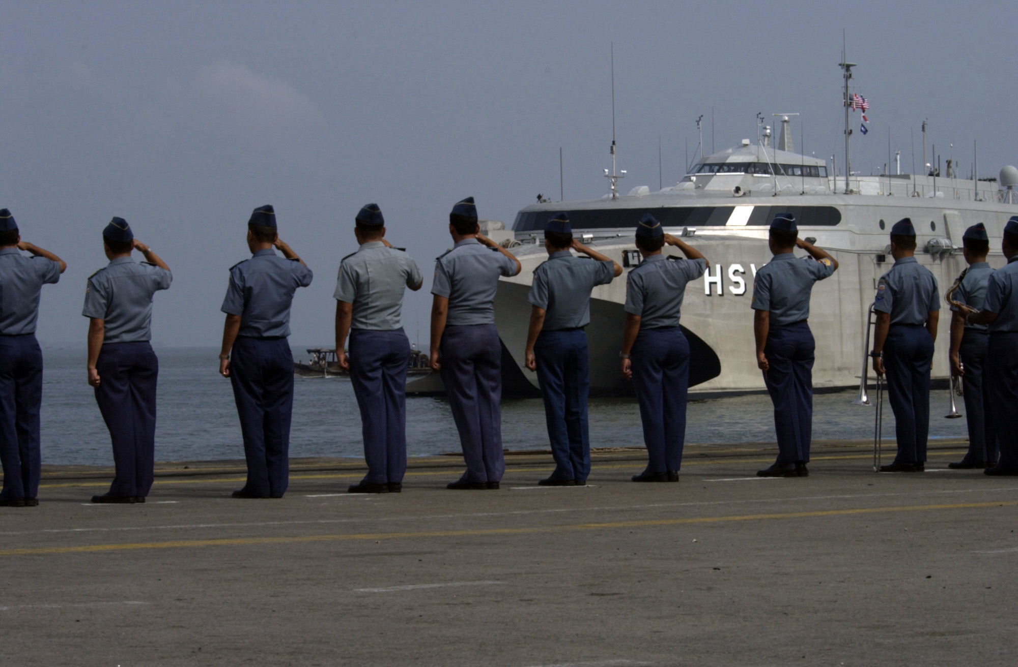 Belawan, Indonesia (Feb. 3, 2005) - Indonesian military personnel render a salute to the High Speed Vessel Two (HSV-2) "Swift" as it prepares to be moored at the pier in Belawan, Indonesia. Swift is transferring water purification chemicals, medical supplies, and rice donated by Mexico to victims of the tsunami that struck Southeast Asia. More than 18,000 Marines, Sailors, Airmen, Soldiers and Coast Guardsmen with Combined Support Force Five Three Six (CSF-536), working with international militaries and non-governmental organizations to aid the affected people of Thailand, Sri Lanka and Indonesia after the tsunami devastated the region. A Combined Support Force of host nations, civilian aid organizations and U.S. Department of Defense work to provide humanitarian assistance in support Operation Unified Assistance, the humanitarian relief effort to aid the victims of the tsunami that struck Southeast Asia. U.S. Navy photo by Photographer’s Mate 1st Class Shawn P. Eklund (RELEASED)